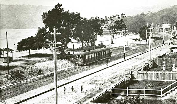 Tram to balmoral Dated 29 May 1922. Please see here for a modern day view of the same photo